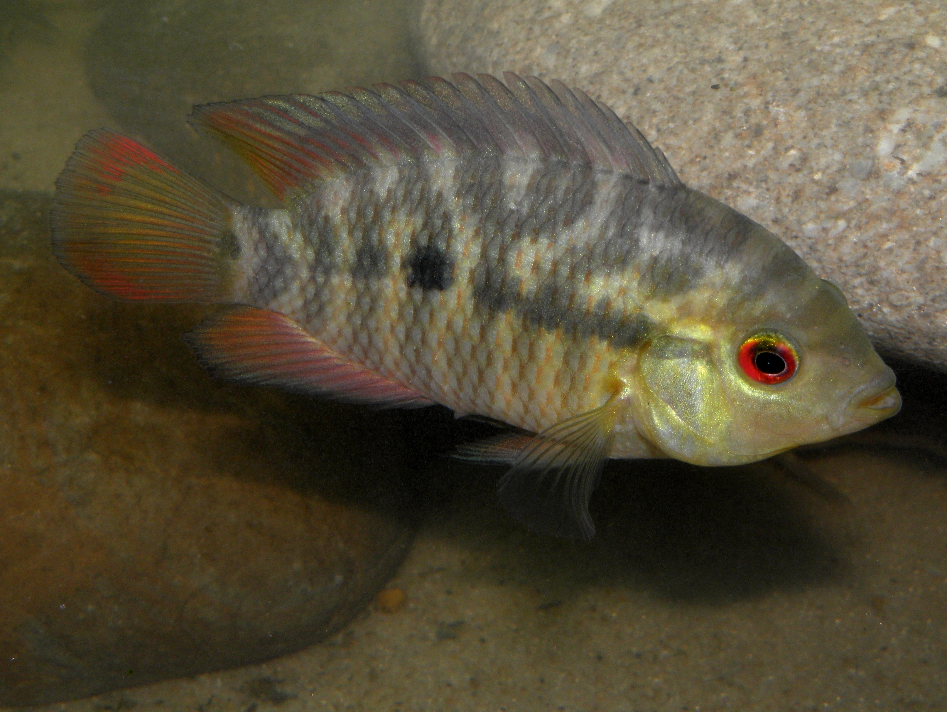 Australoheros facetus -breeding coloration-.